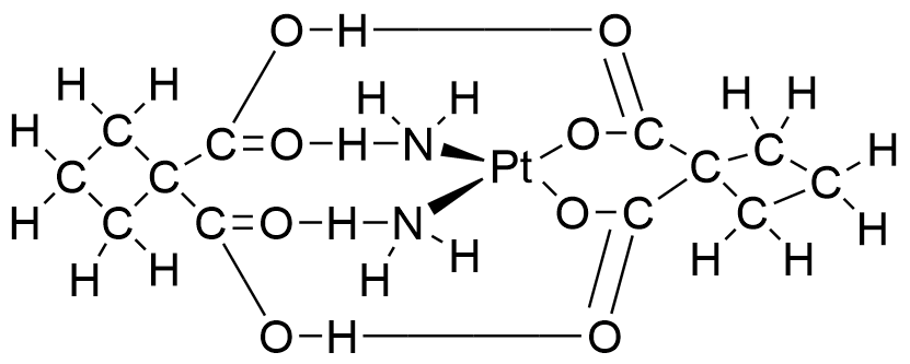 Chemical structure of Dicycloplatin